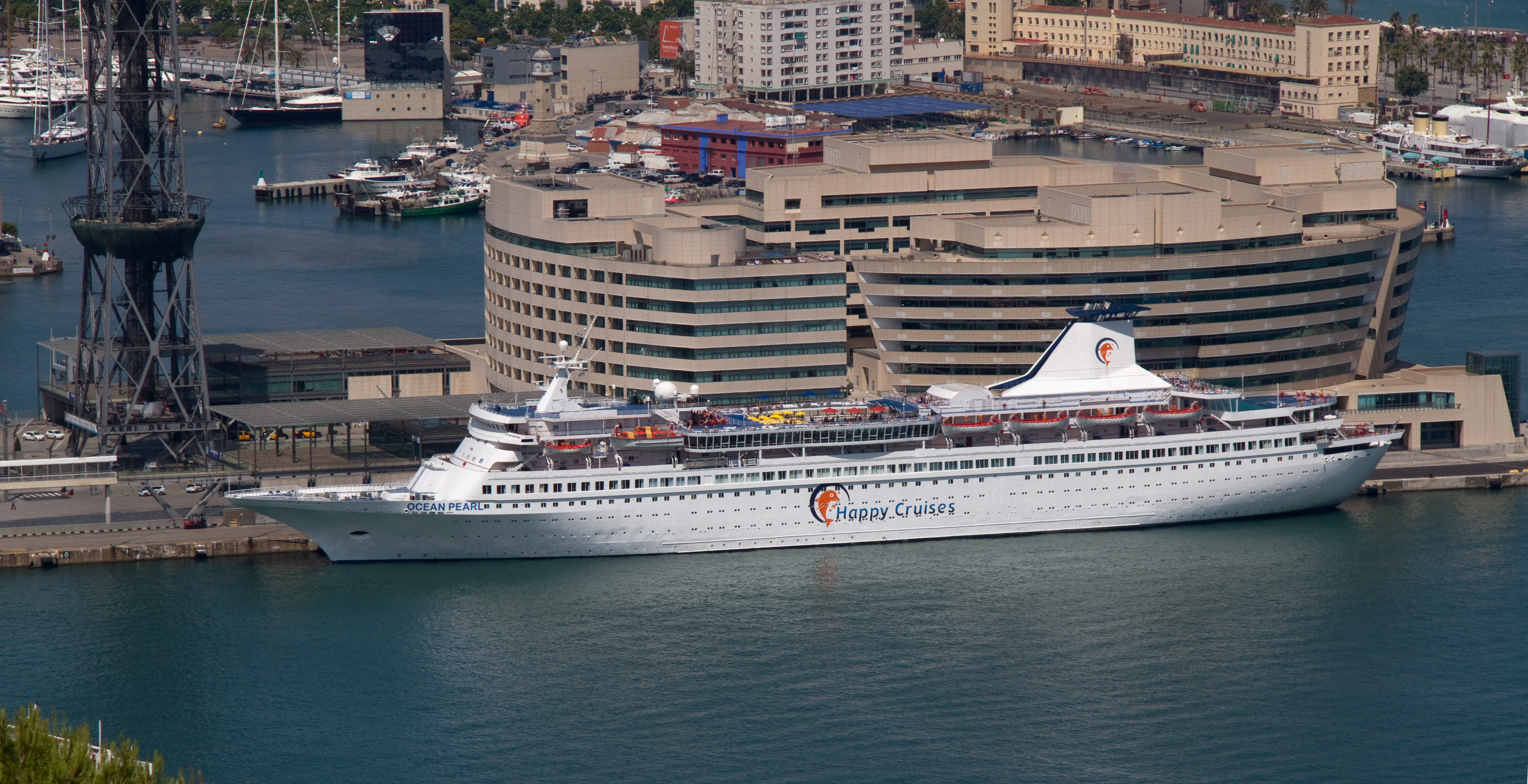 Ocean Pearl